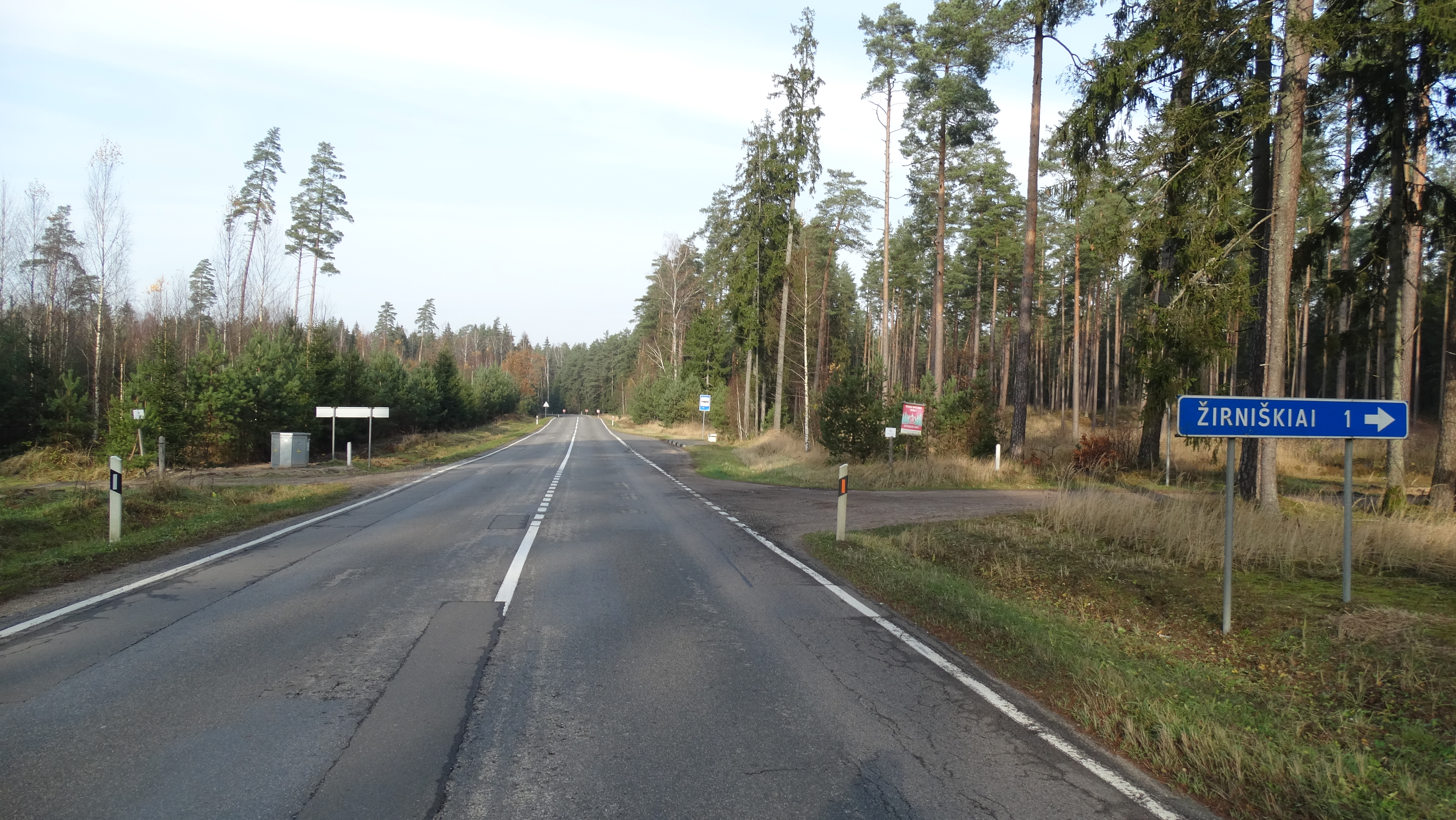 Road 147, Jurbarkas District, Lithuania